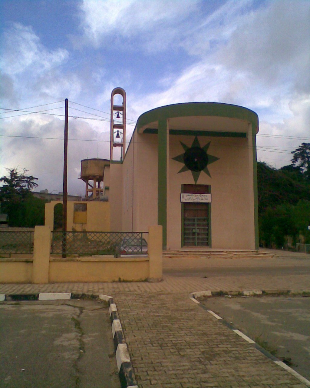 Ain as Saqr association for antiquities, established in a former modernist style Italian church in Massah, Libya.